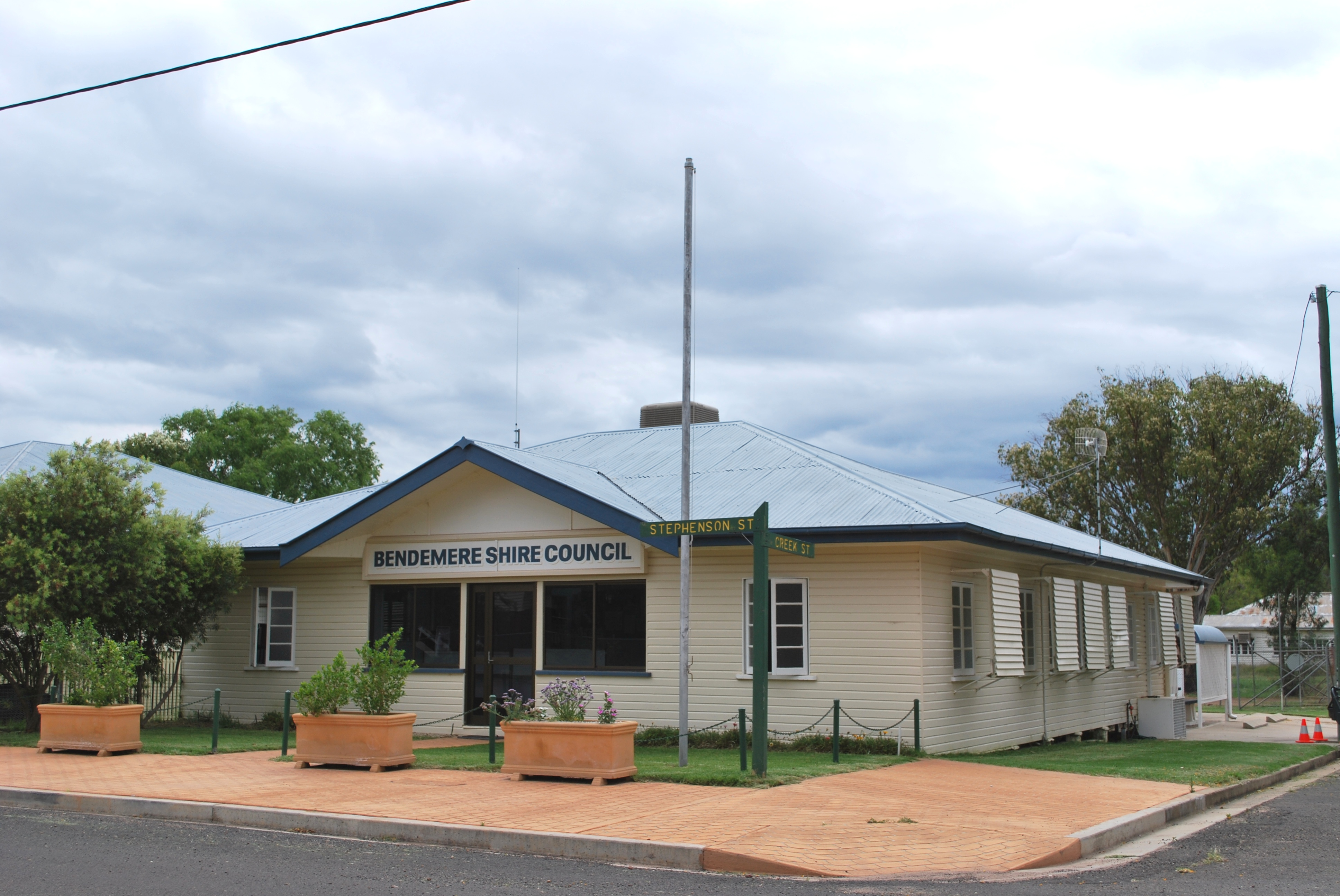 Office of the former Bendemere Shire Council in Yuleba, Queensland